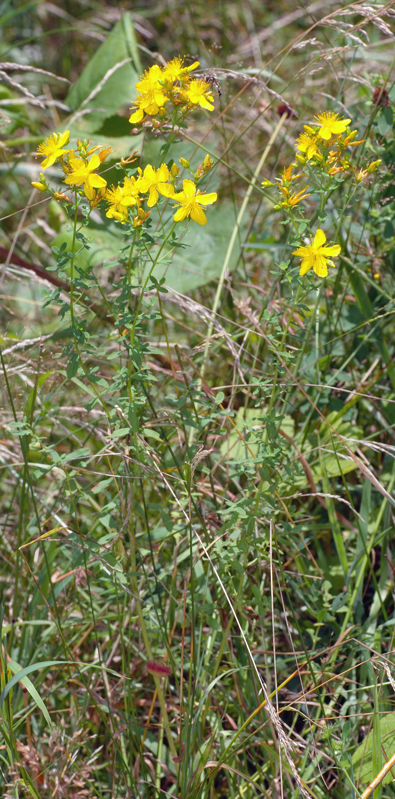 This image shows a St. John's-wort (Hypericum pulchrum).